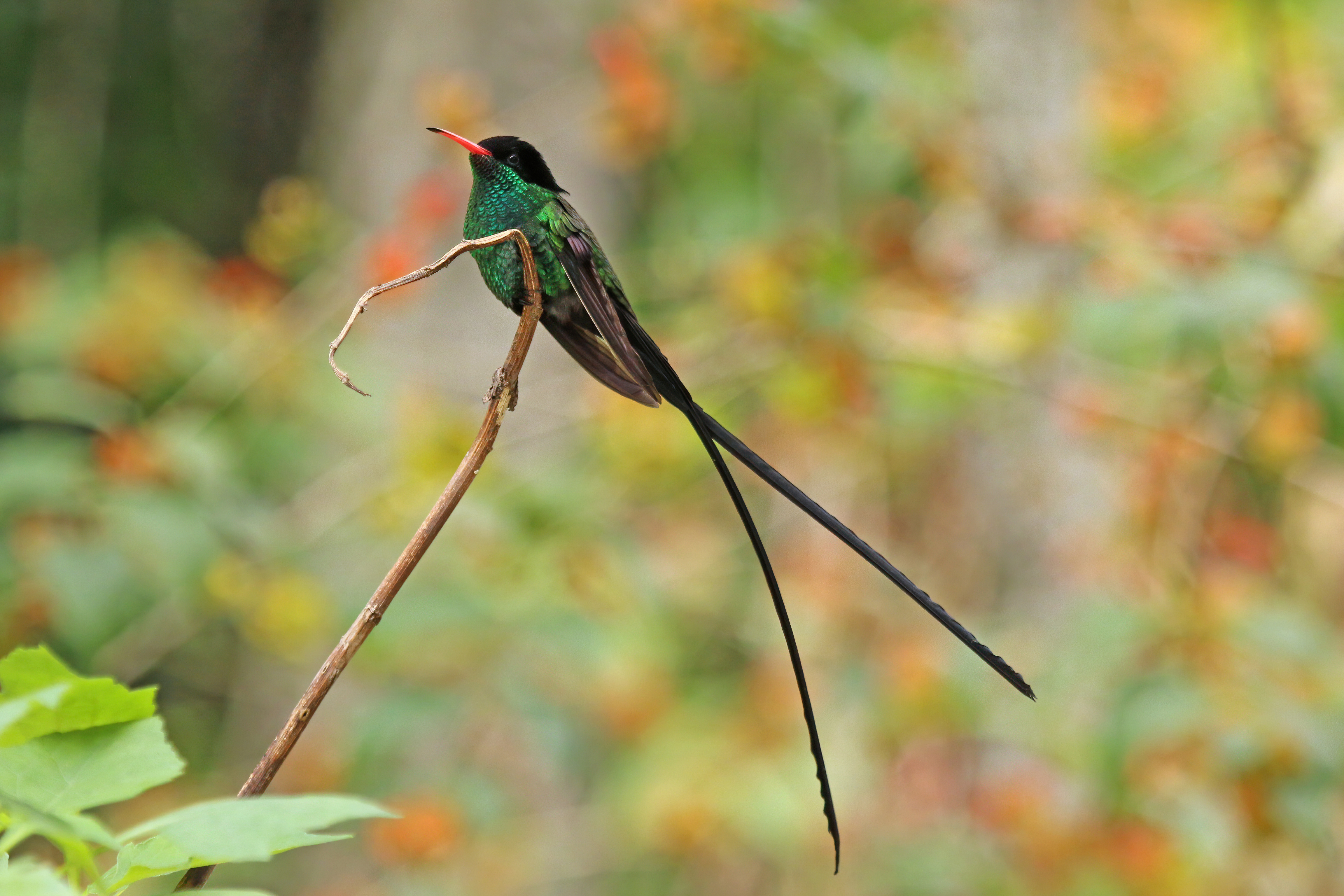 Red-billed streamertail (Trochilus polytmus), male, Strawberry Hill, Jamaica